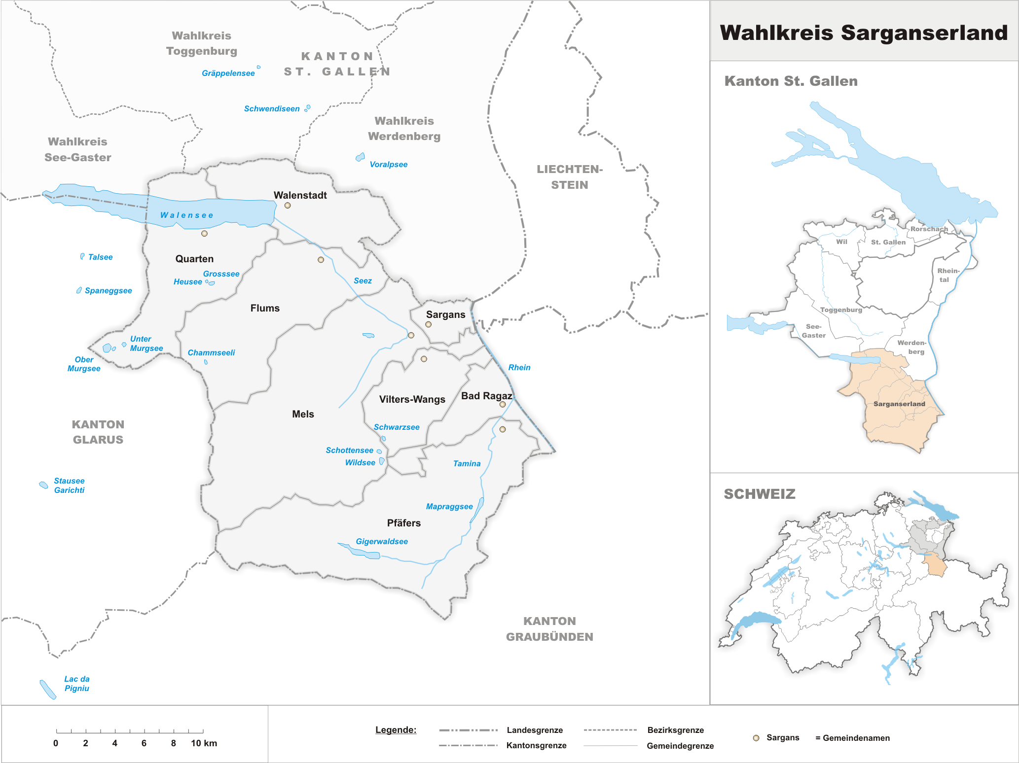 Municipalities in the district of Sarganserland